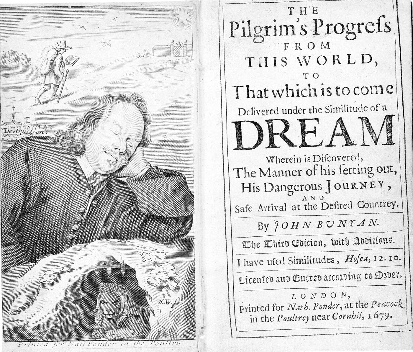 Frontispiece and title page of the third edition of "The Pilgrim's Progress," by John Bunyan, printed at London, 1679. Courtesy of the Beinecke Rare Book & Manuscript Library, Yale University.